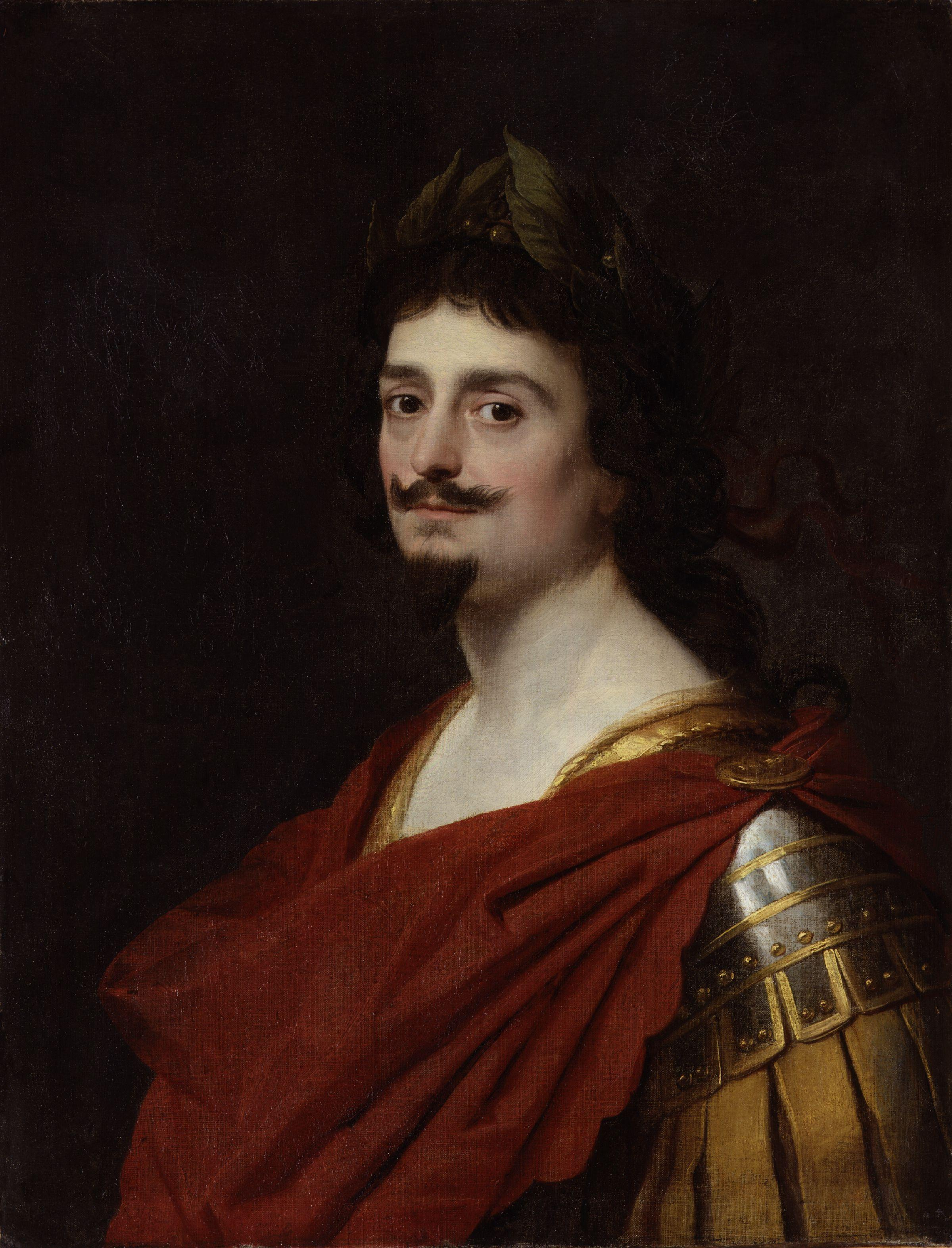 All images in this batch have been confirmed as author died before 1939 according to the official death date listed by the NPG.